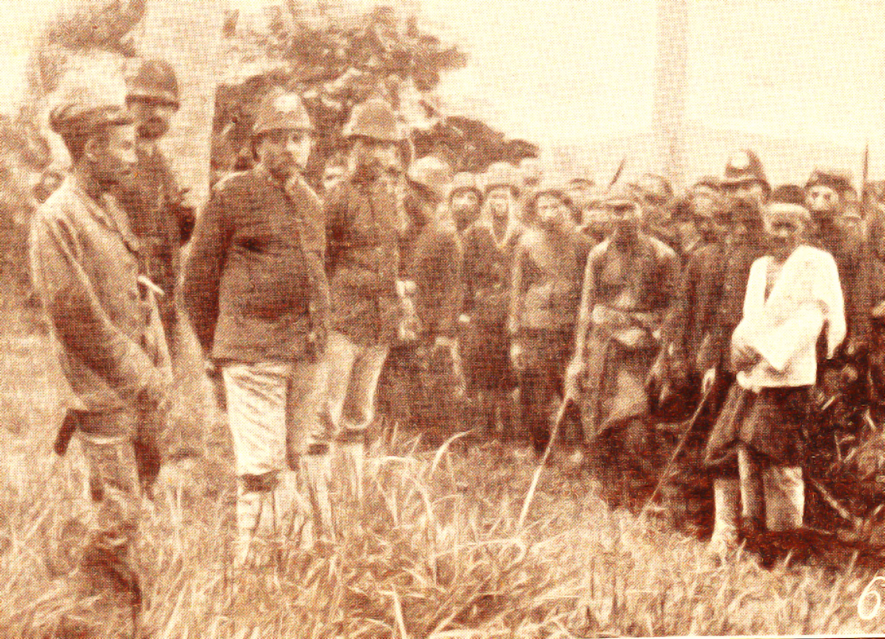 Van Heutsz in het bivak Selimoen